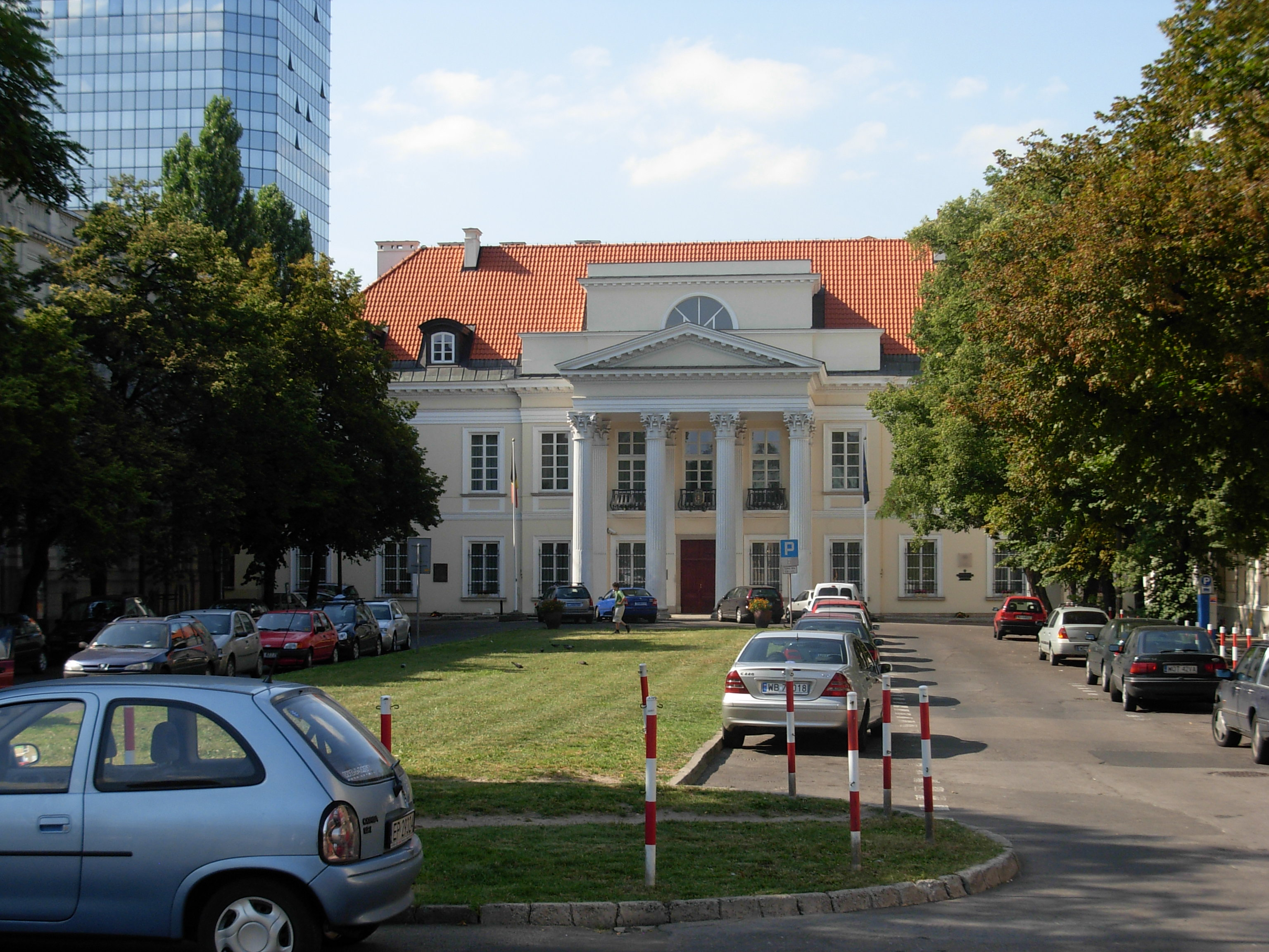 Embassy of Belgium in Warsaw